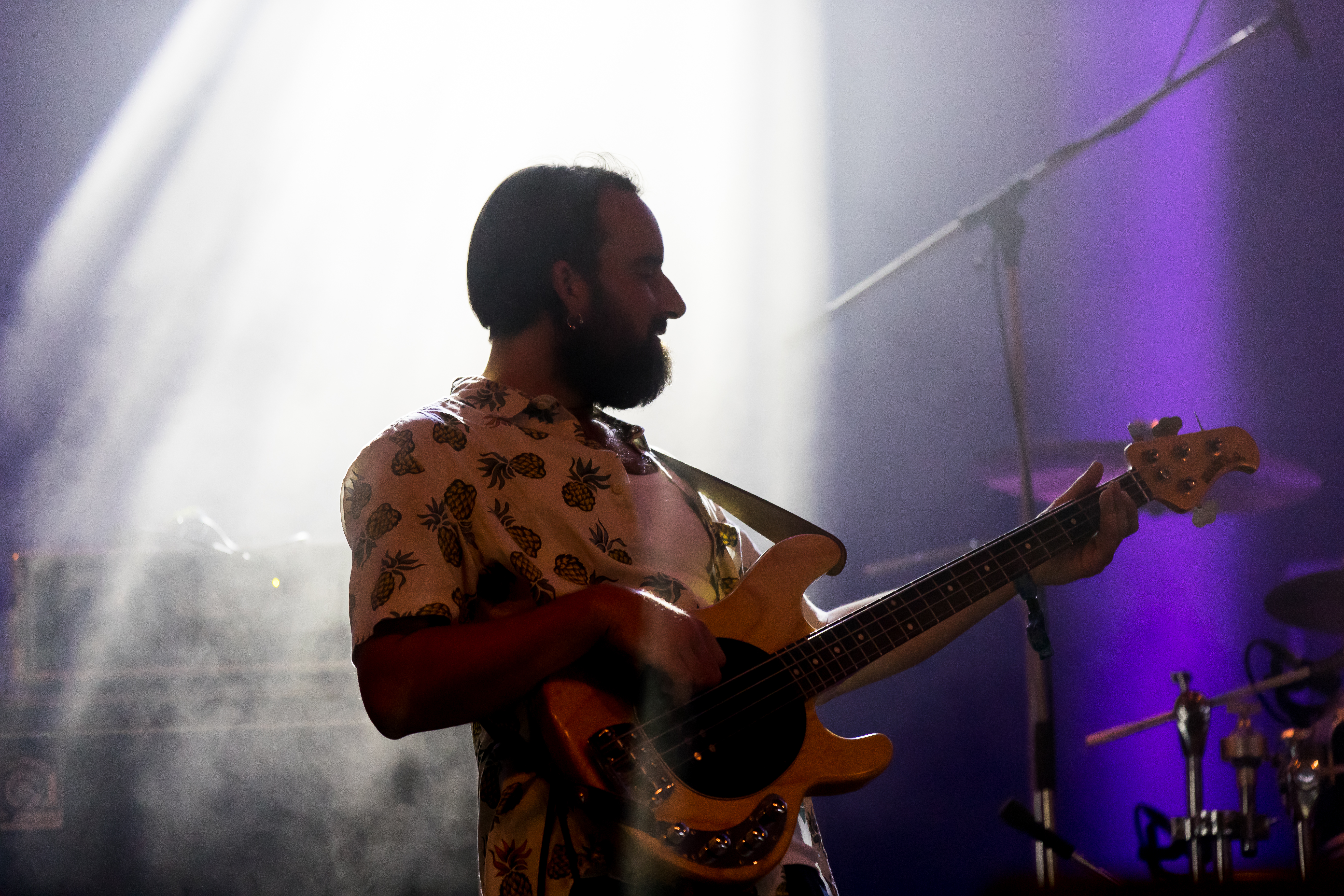 Nocte Obducta during Summer Breeze 2016 at , Dinkelsbühl, Bayern, Germany on 2016-08-20, Photo: Sven Mandel